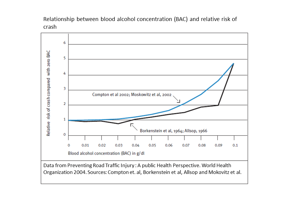 Curves describing the increased relative risk for a traffic crash with elevated blood alcohol content. Data from a well sourced WHO publication.